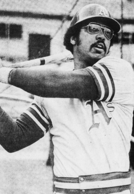 Professional baseball player Reggie Jackson taken before the third game of the 1973 World Series.